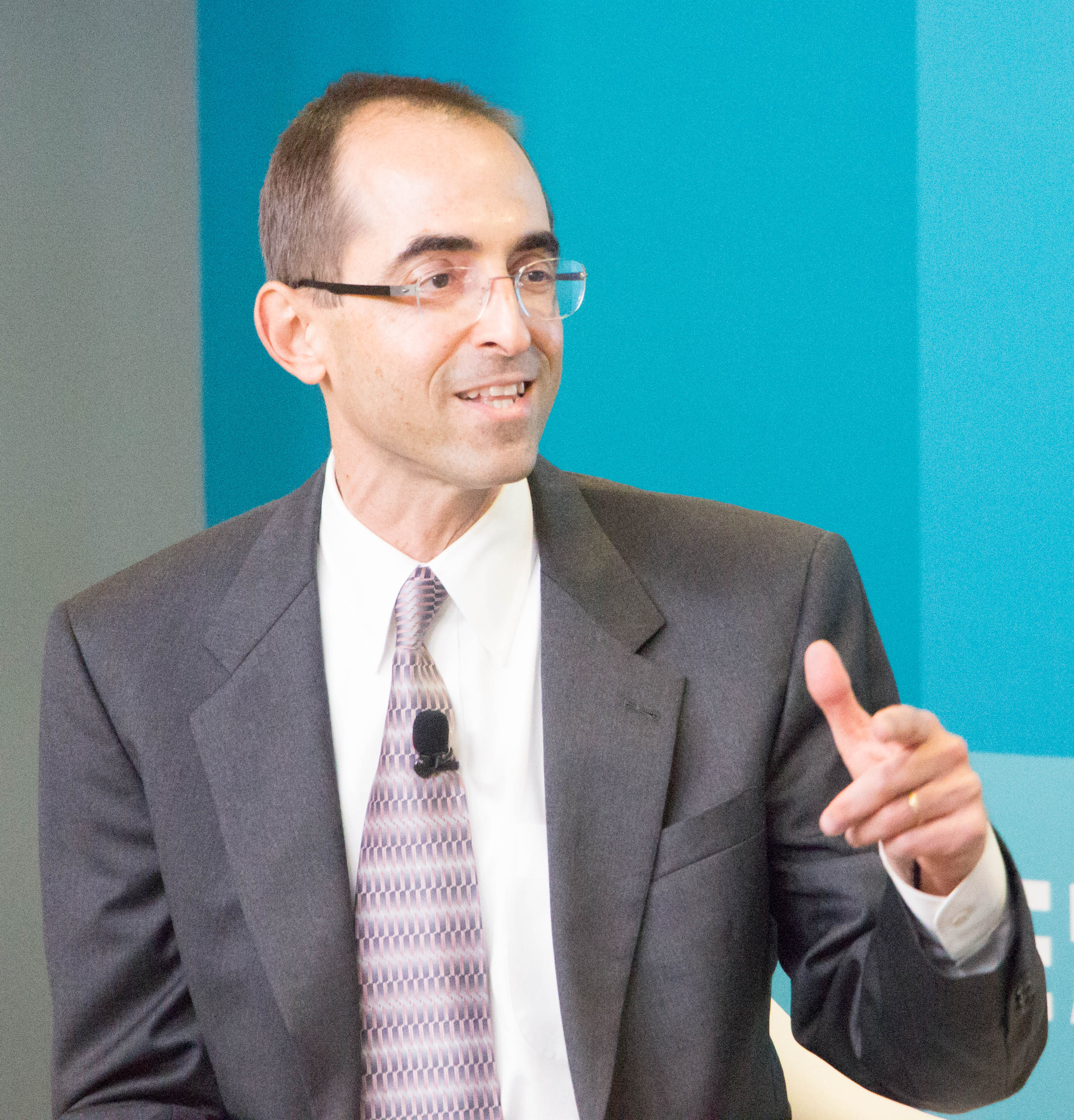 William Saletan, National correspondent, Slate, at a New America discussion, "America's Longest War, Against Cancer"